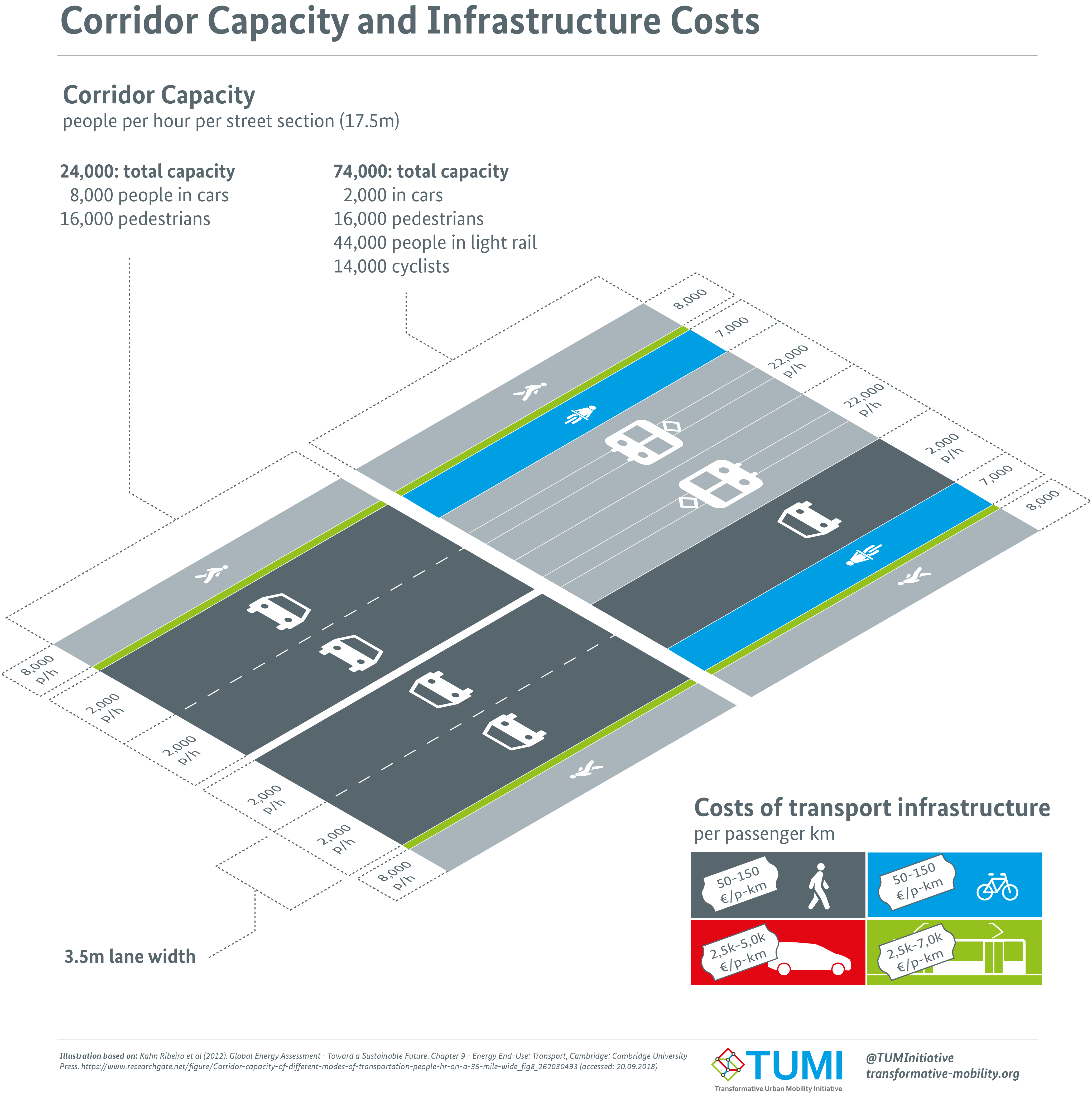 Corridor Capacity and Infrastructure Costs Corridor capacity people per hour per street section cars, pedestrians, light rail, cyclists Cost of transport infrastructure per passenger km